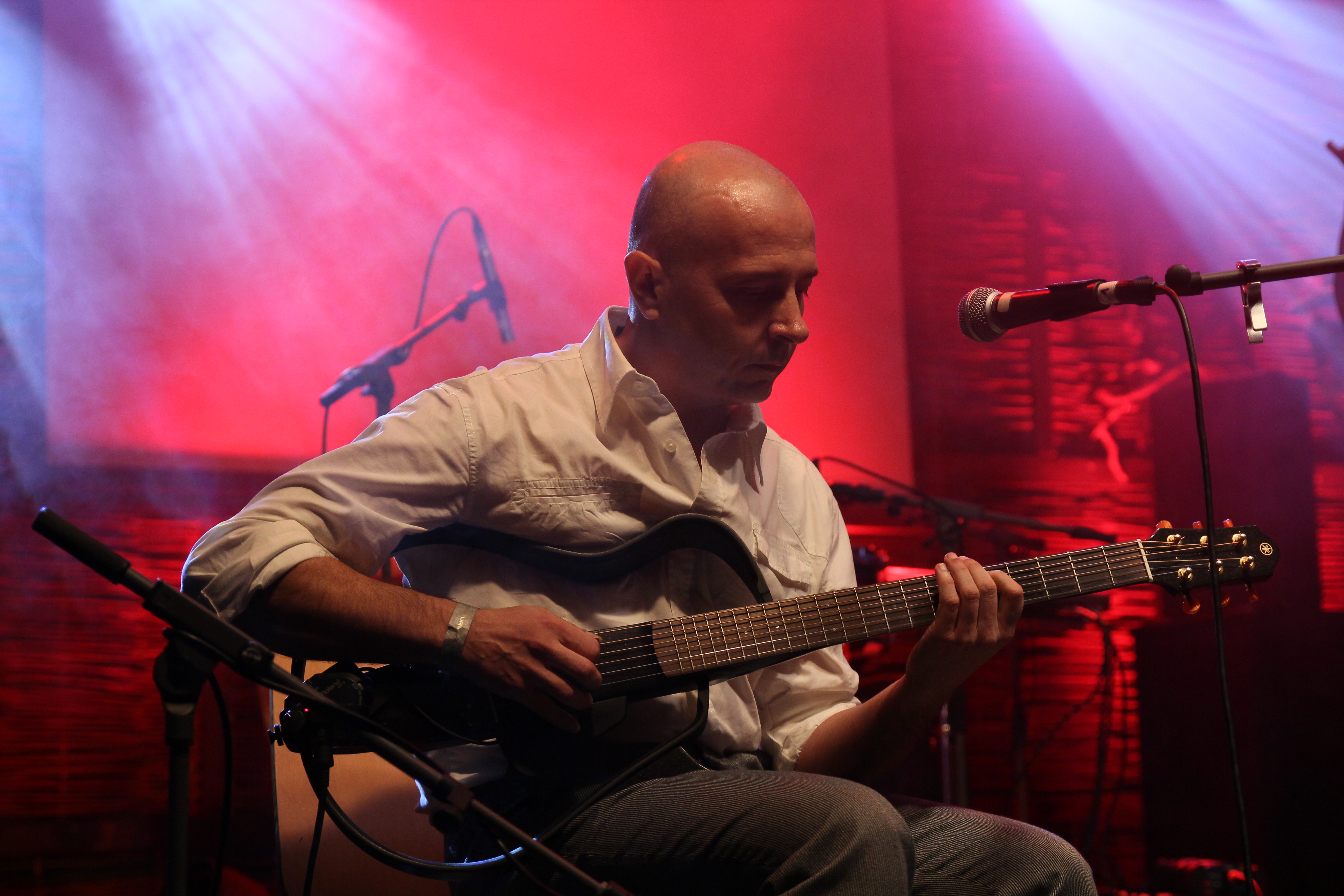 The Italian neo-classic dark wave band Ataraxia at the Nocturnal Culture Night 9 2014 in Deutzen/Germany